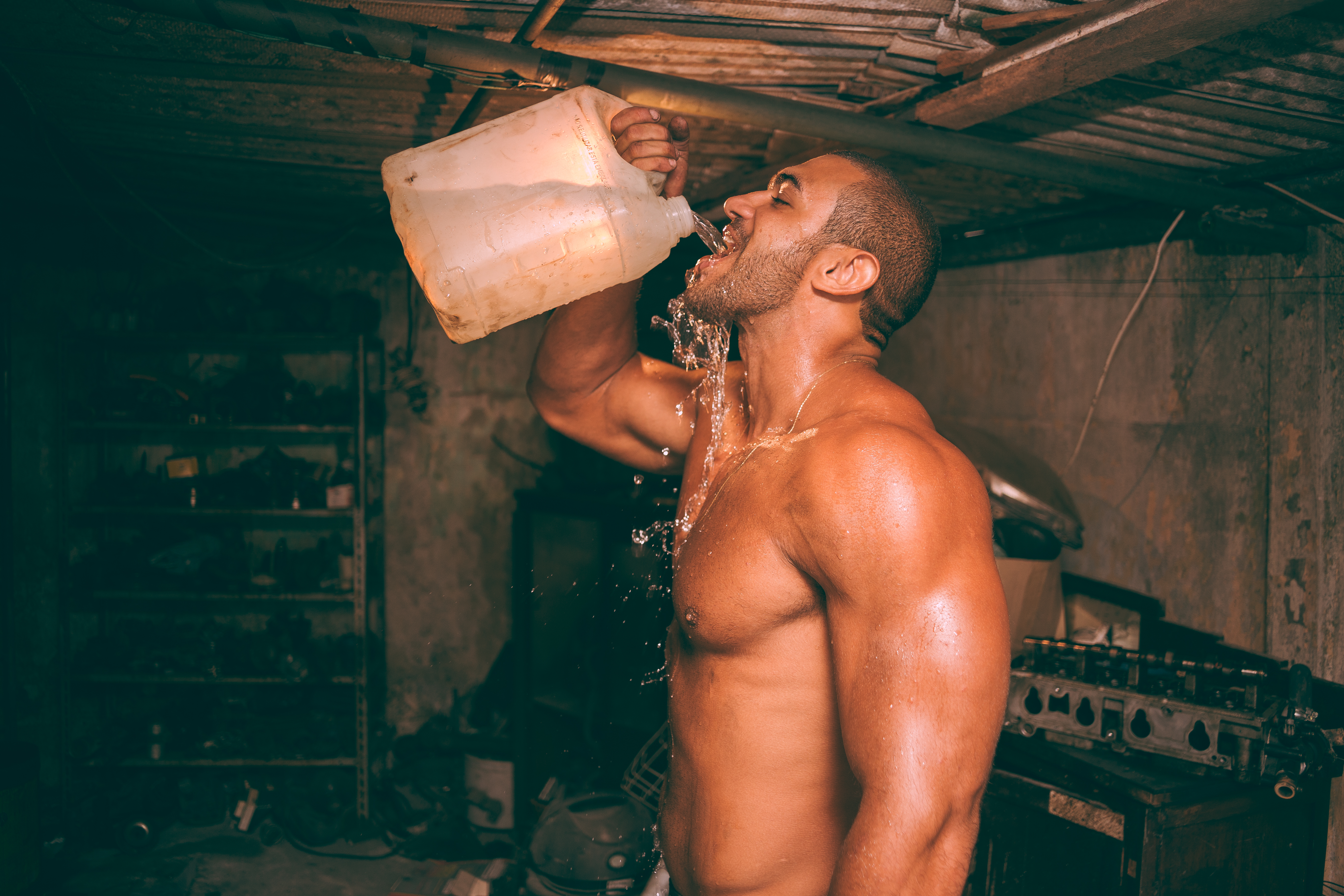 Rio de Janeiro, Brazil